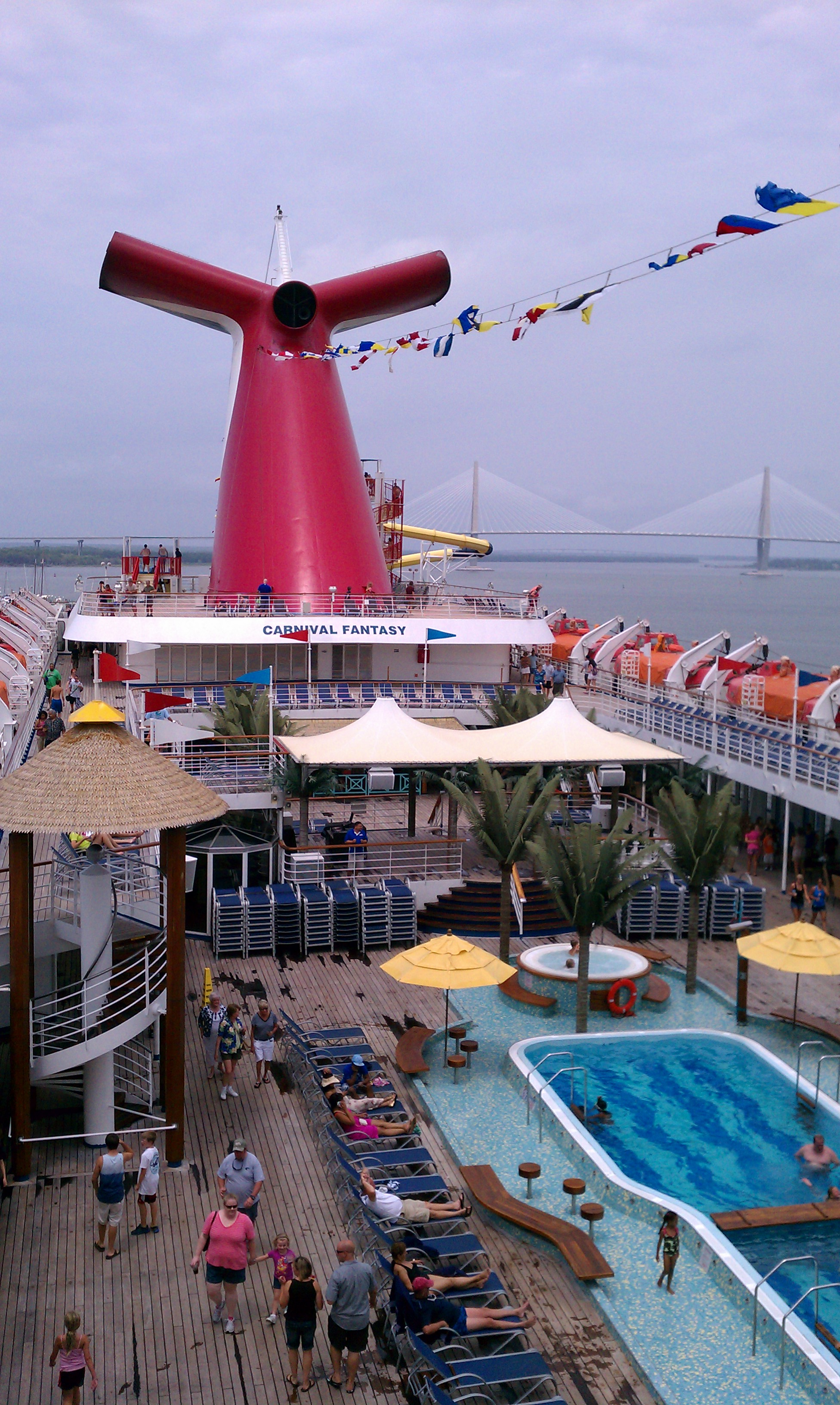 Deck on ship